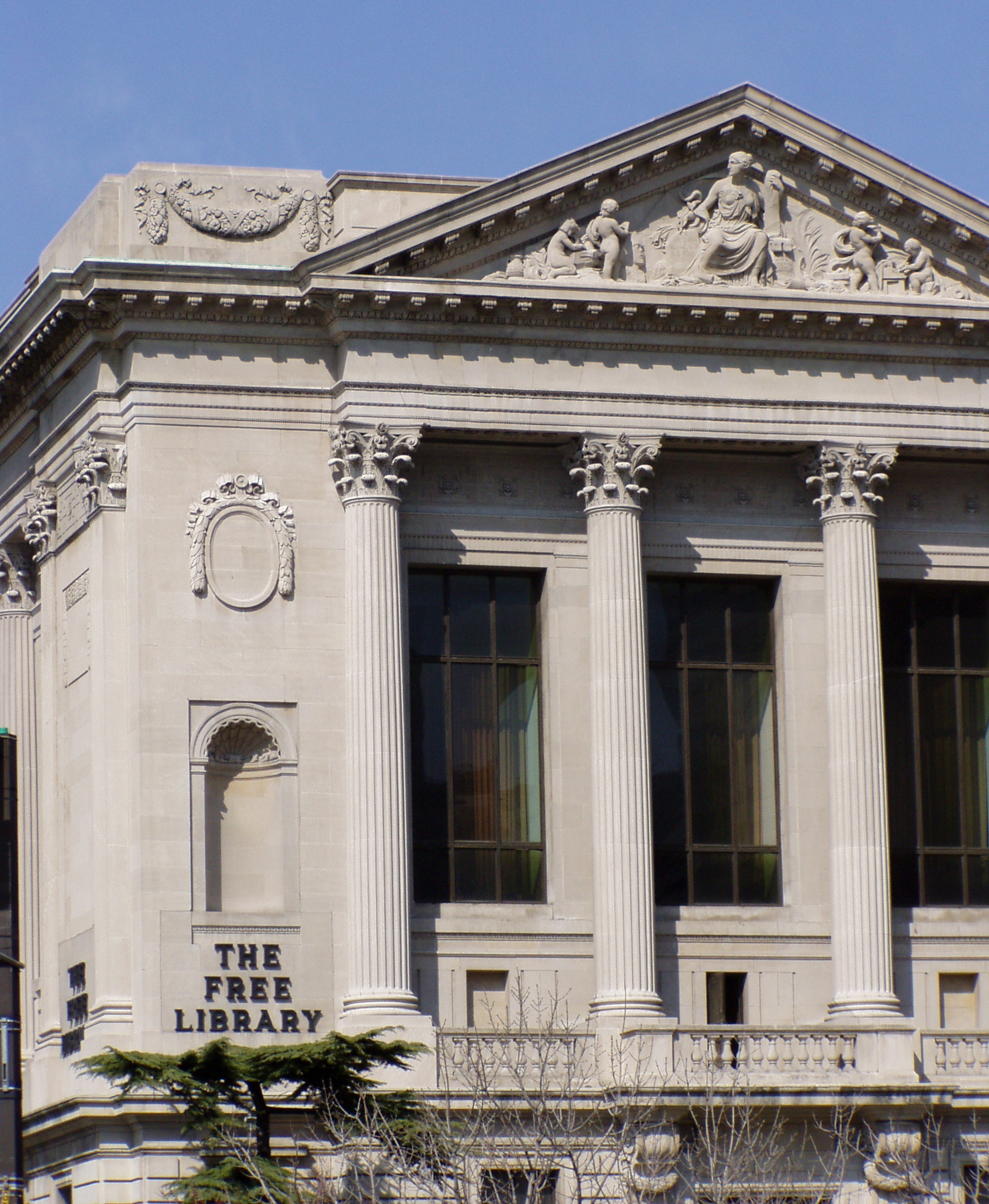 The main facade of the Parkway Central Library, Free Library of Philadelphia.